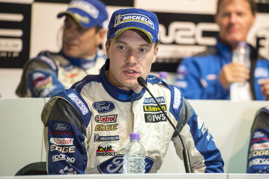 Wales Rally Great Britain 2012 Ford WRT,Ford World Rally Team,Jari-Matti Latvala,Motorsport,Pressekonferenz,Rally,Rallye,WRC,Wales Rally GB